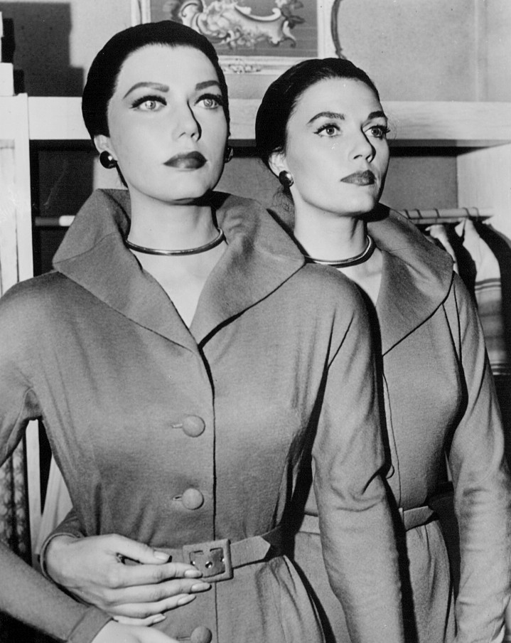 Photo of Elizabeth Allen and her mannequin double from The Twilight Zone episode "The After Hours". Allen played a aalesclerk in a department store who was later revealed to be a mannequin.